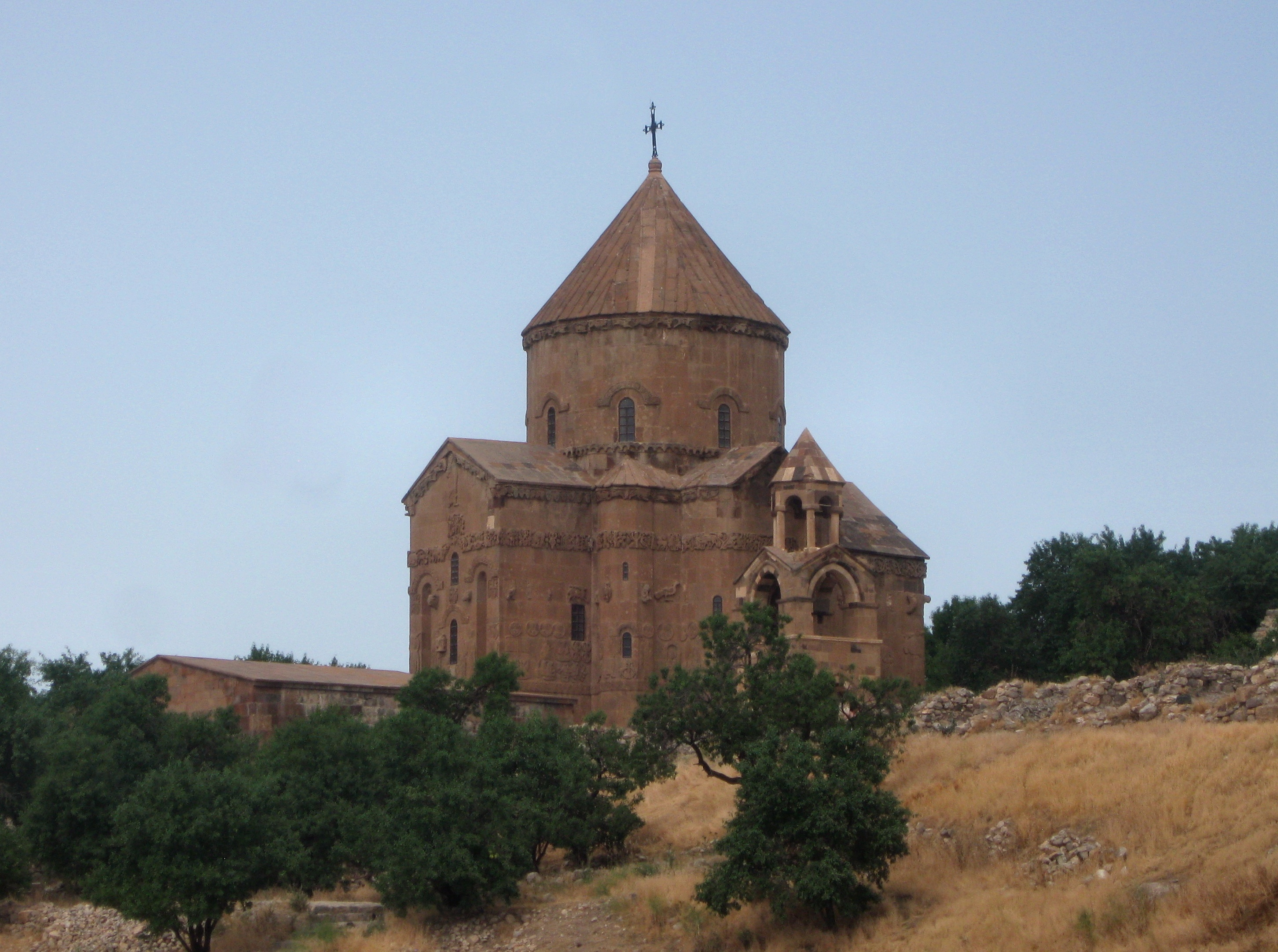 Akhtamar Surb Khach